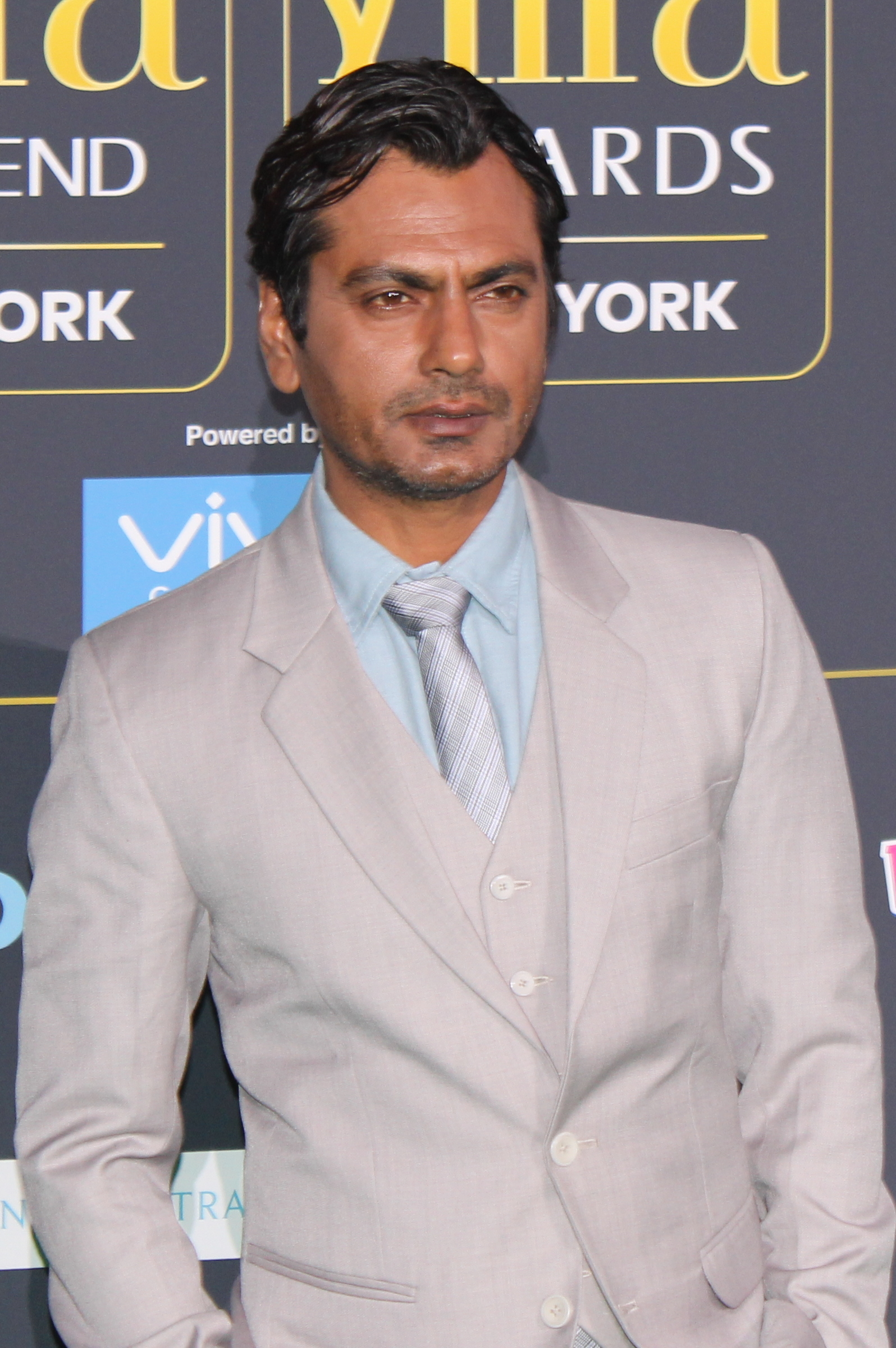 Nawazuddin Siddiqui. International Indian Film Academy awards Green Carpet (MetLife Stadium) in East Rutherford, New Jersey #IIFA2017 #IIFA